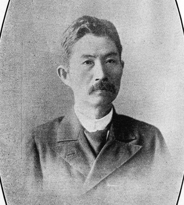 Koizuka Ryū, Mayor of Tokyo